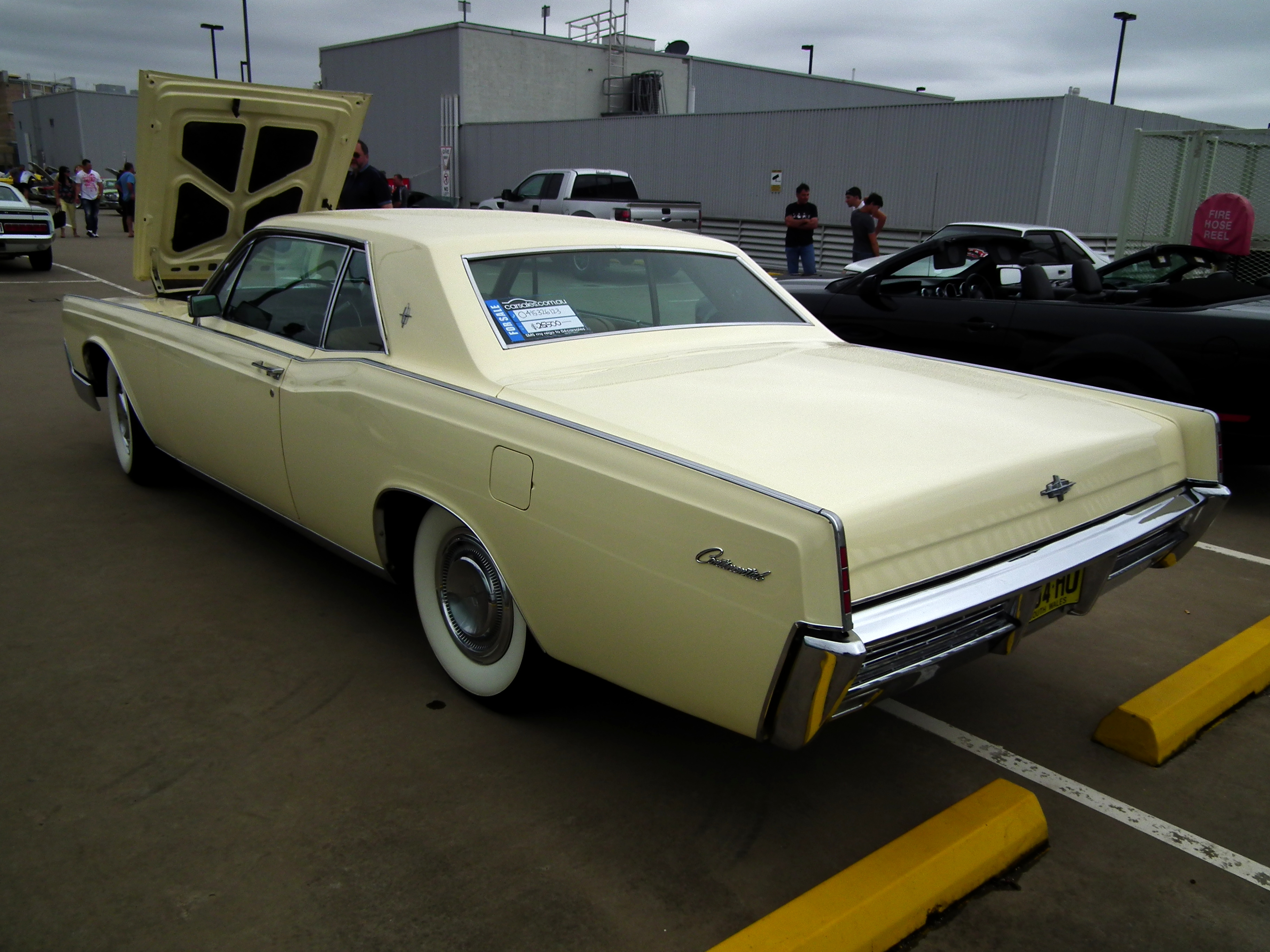 1967 Lincoln Continental coupe. Taken at the 2013 New South Wales All American Day, held at Castle Towers Shopping Centre, Castle Hill, Sydney.